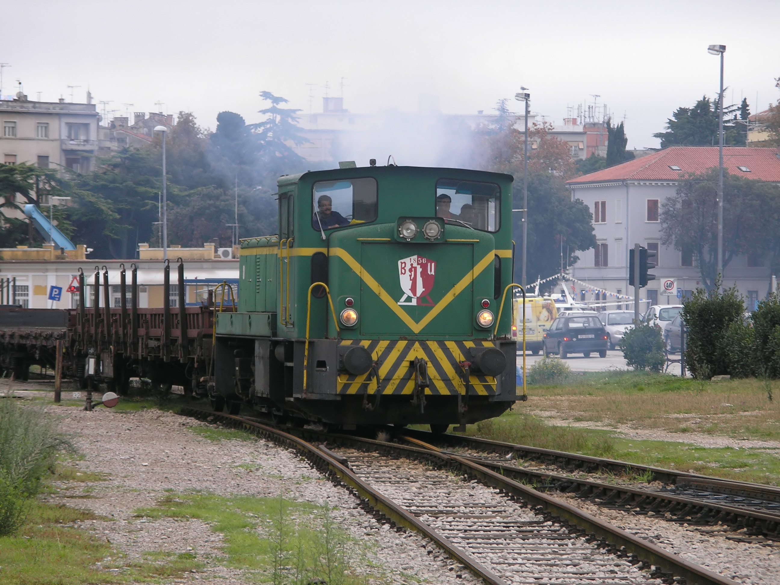 2132 series locomotive of Uljanik in Pula, Croatia